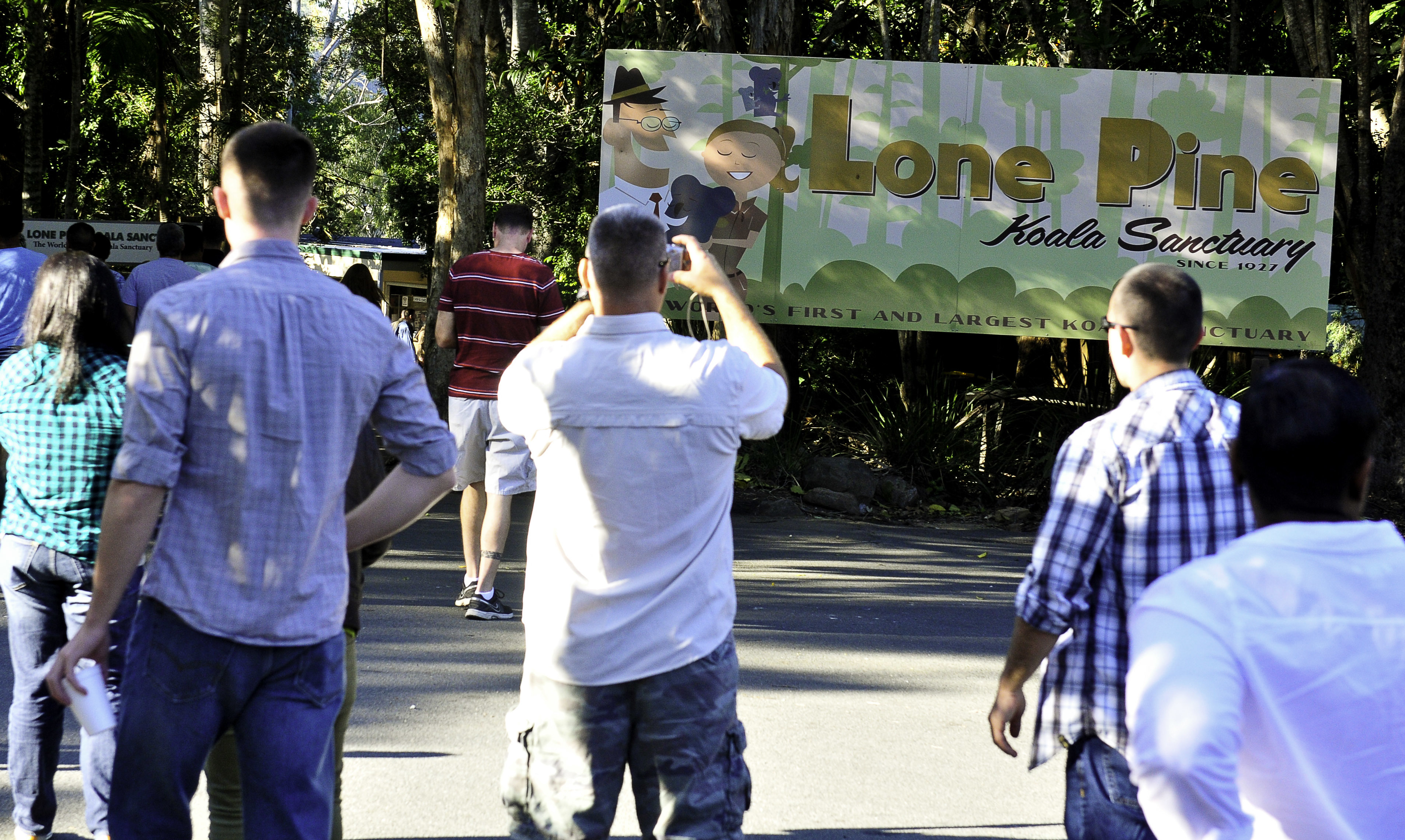 I Corps Soldiers arrive at the Lone Pine Koala Sanctuary at Fig Tree Pocket, Australia, to experience the different Aussie wildlife and culture during Talisman Sabre 15 July 6. Talisman Sabre is a biennial exercise, consisting of U.S. and Australian forces with a contingent of 30,000 participants. I Corps is using Talisman Sabre as a certification exercise to validate as a Combined Forces Land Component Command.